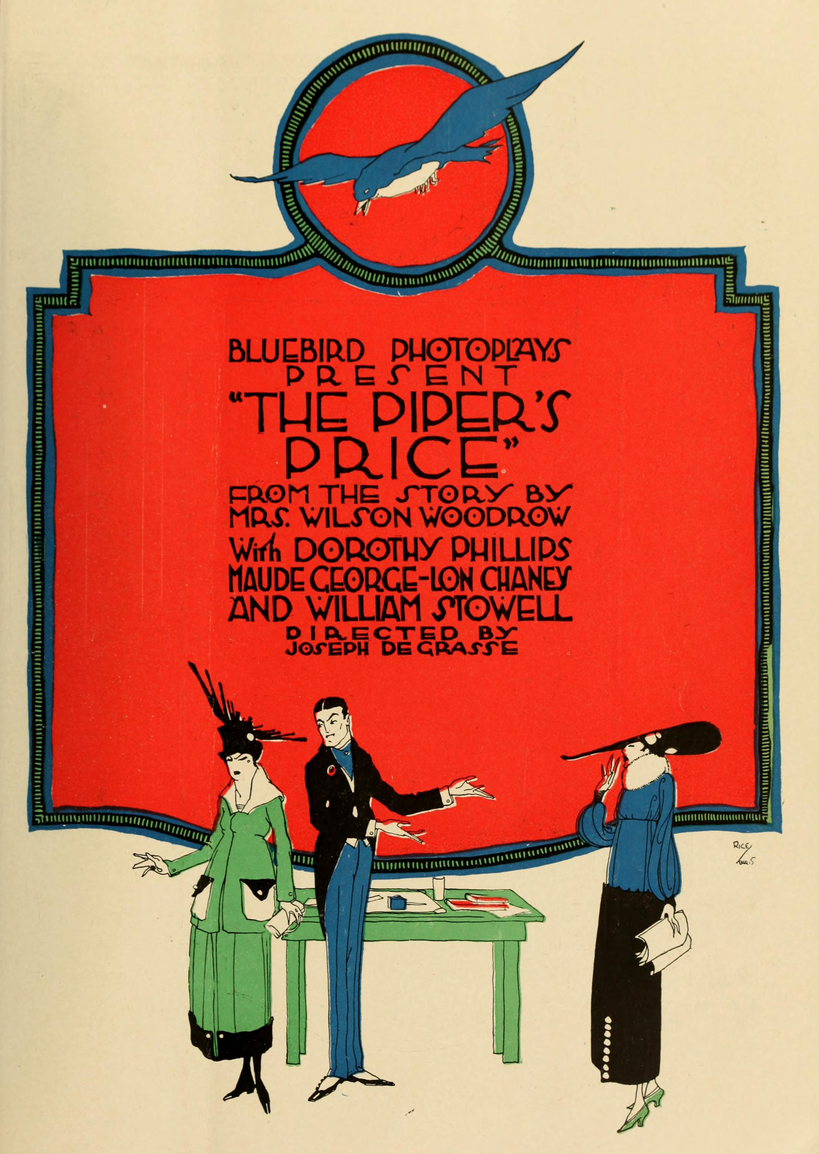 Advertisement in The Moving Picture World